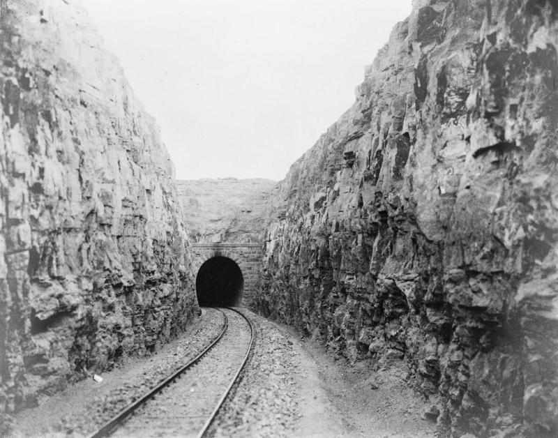 T E Lawrence and the Arab Revolt 1916 - 1918 Hejaz Railway - Akhthar tunnel.